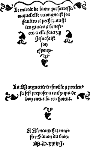 Front page of Le miroir de lame pechereſſe by Marguerite de Navarre (1492-1549)